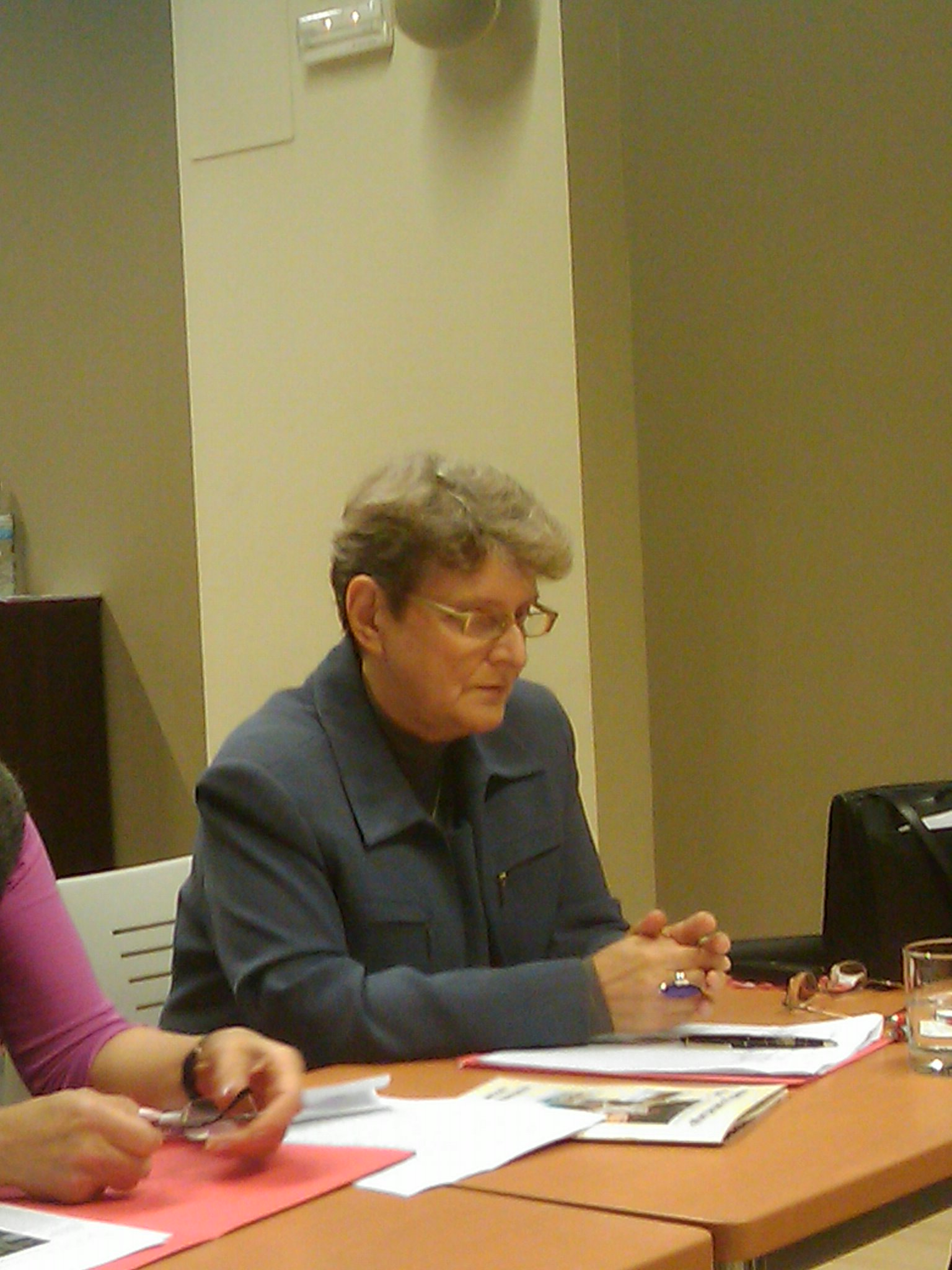 Russian human rights activist Svetlana Gannushkina at a conference in Spain, November 2009